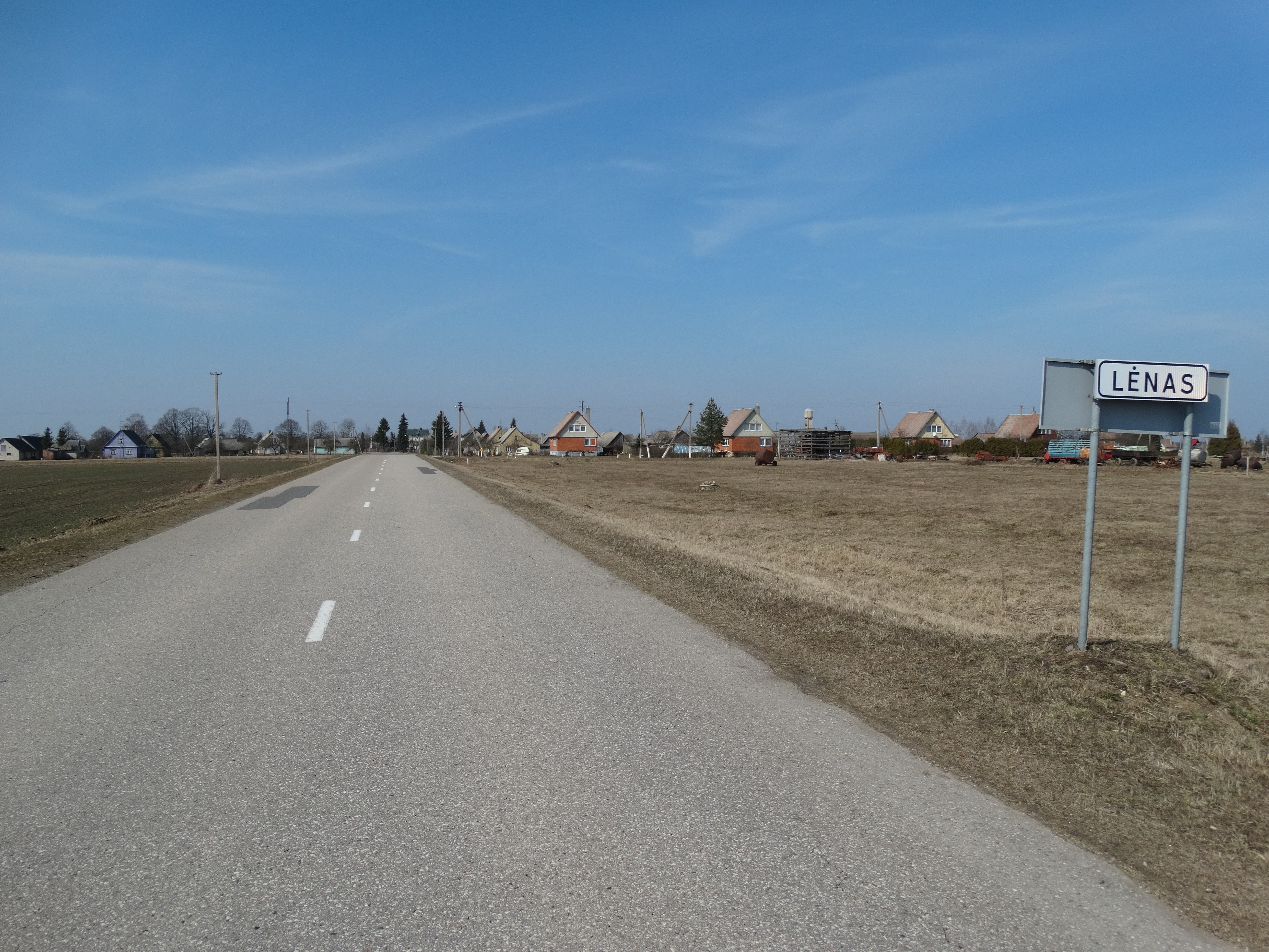 Lėnas, Ukmergė district, Lithuania